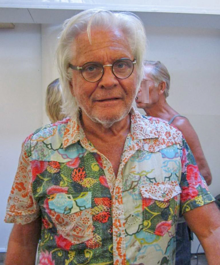 Swedish actor Ted ÅströmPlace: So Stockholm, Kungsträdgården, Stockholm, Sweden